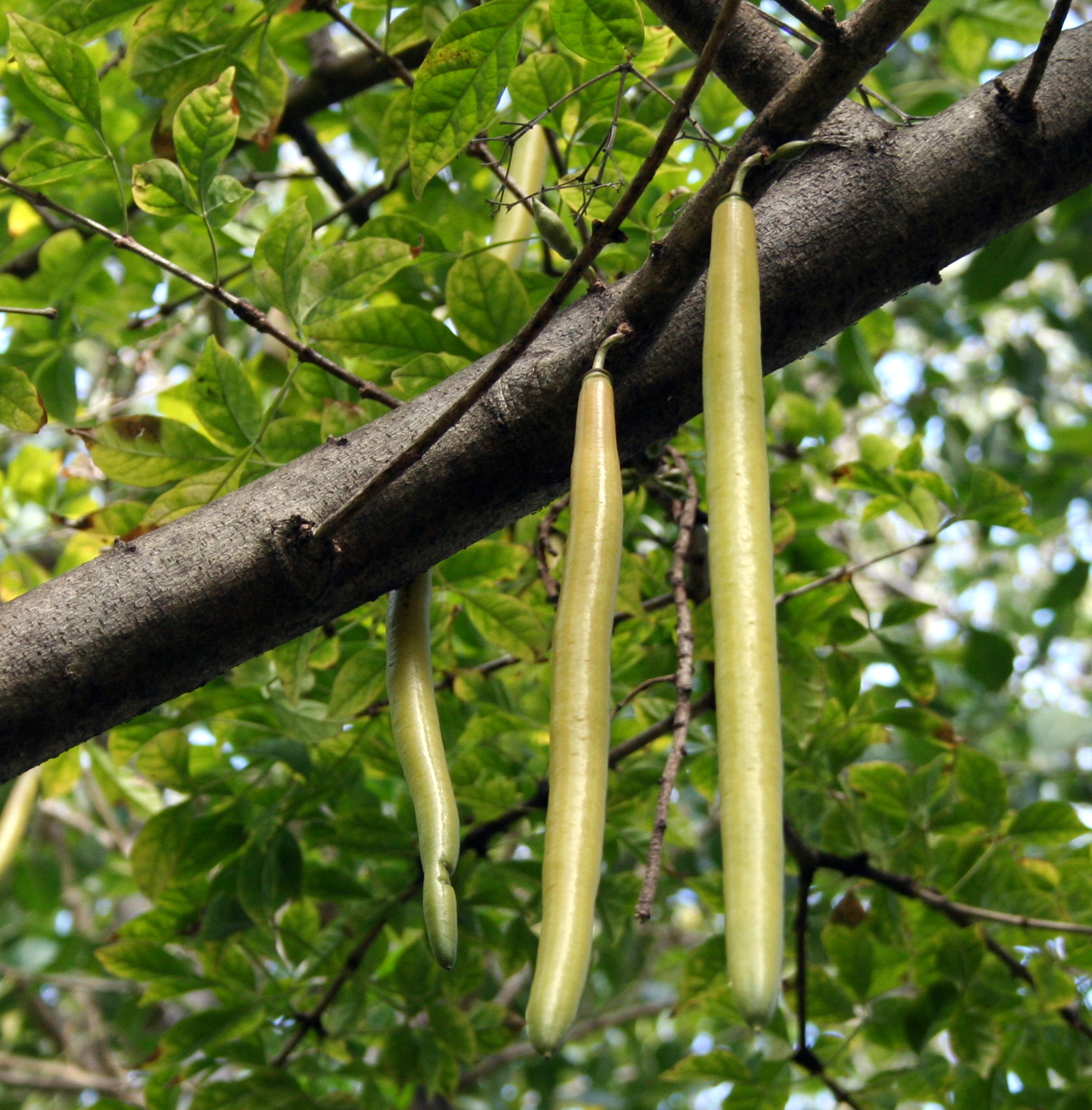 Parmentiera cereifera at Foster Botanic Garden, Honolulu, HI, USA